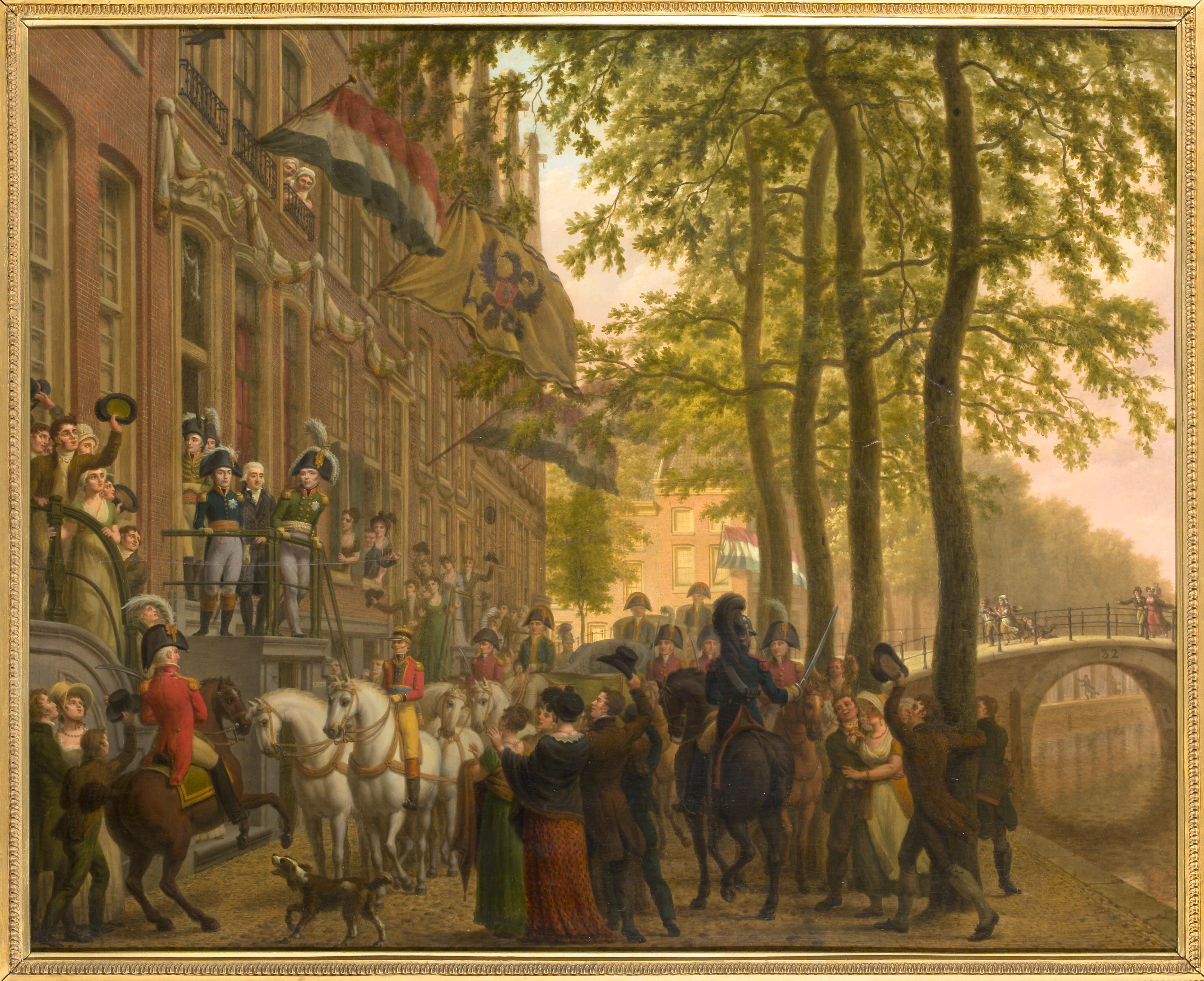 Alexander I of Russia and William I of the Netherlands visit the art collection of Josephus Augustinus Brentano at Herengracht 544 in Amsterdam on 4 July 1814. Mr. Brentano stands between the two on the terrace on top of the stairs. In the door opening crown prince Willem (later king William II) and prince Frederik of the Netherlands.